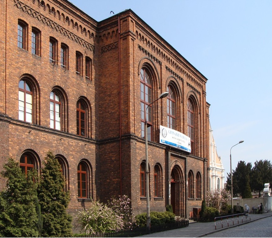 Śrem, High School of name of Józef Wybicki.